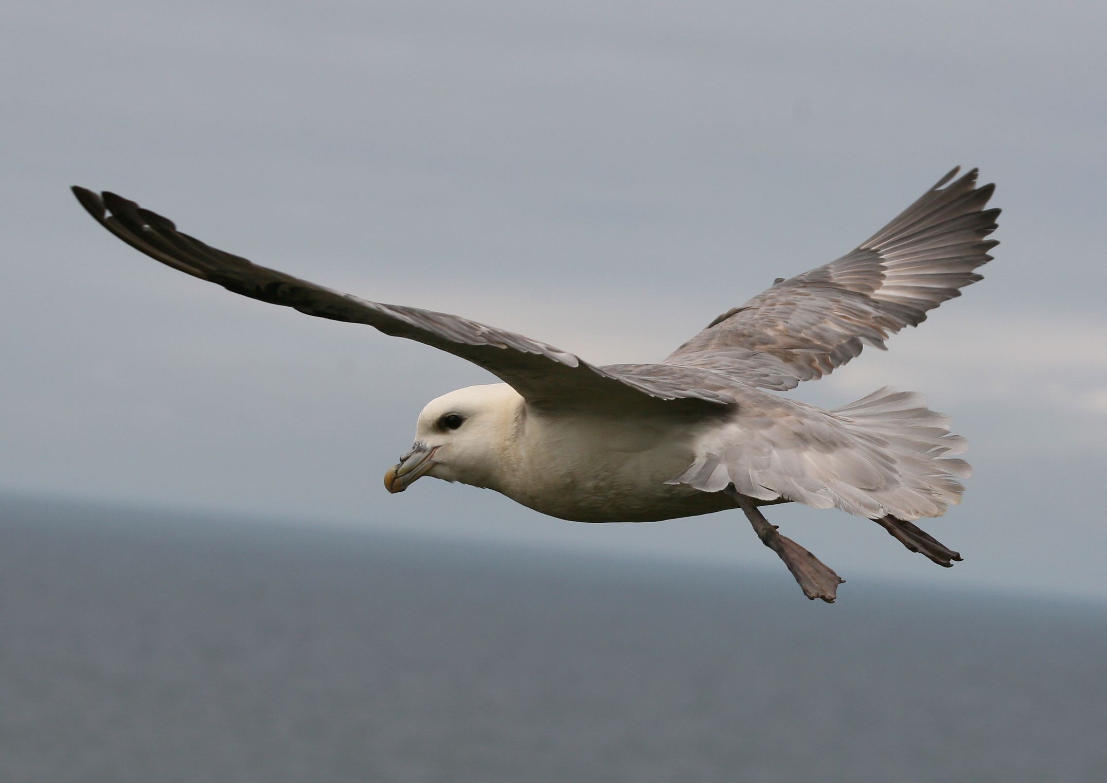 A northern fulmar (Fulmarus glacialis) in flight photographed at Yesnaby cliffs, Orkney in 2010.